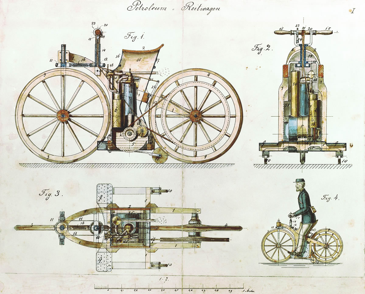 Views of the Daimler Reitwagen 29 August 1885. DE patent 36423